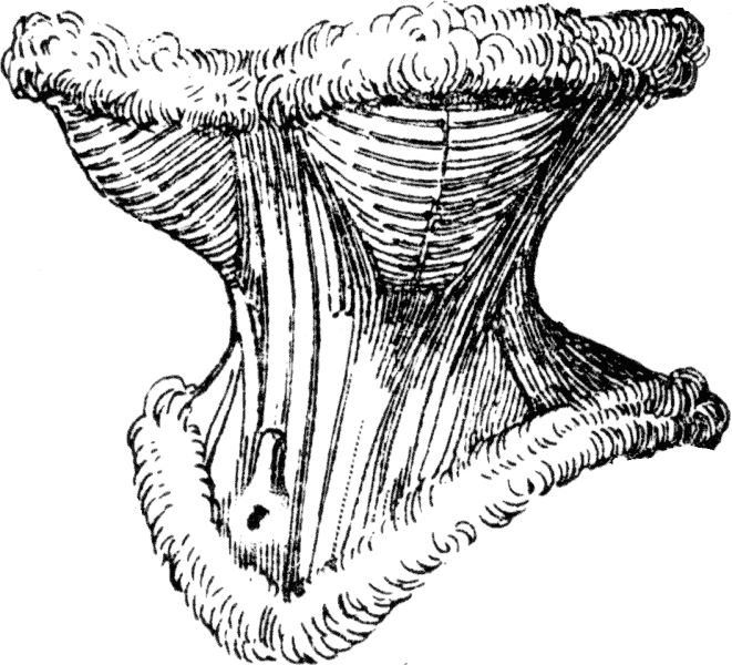 Corset Leoty (1867)